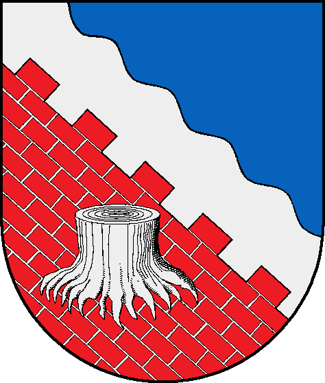 Coat of arms of the municipality Martensrade in Schleswig-Holstein, Germany.